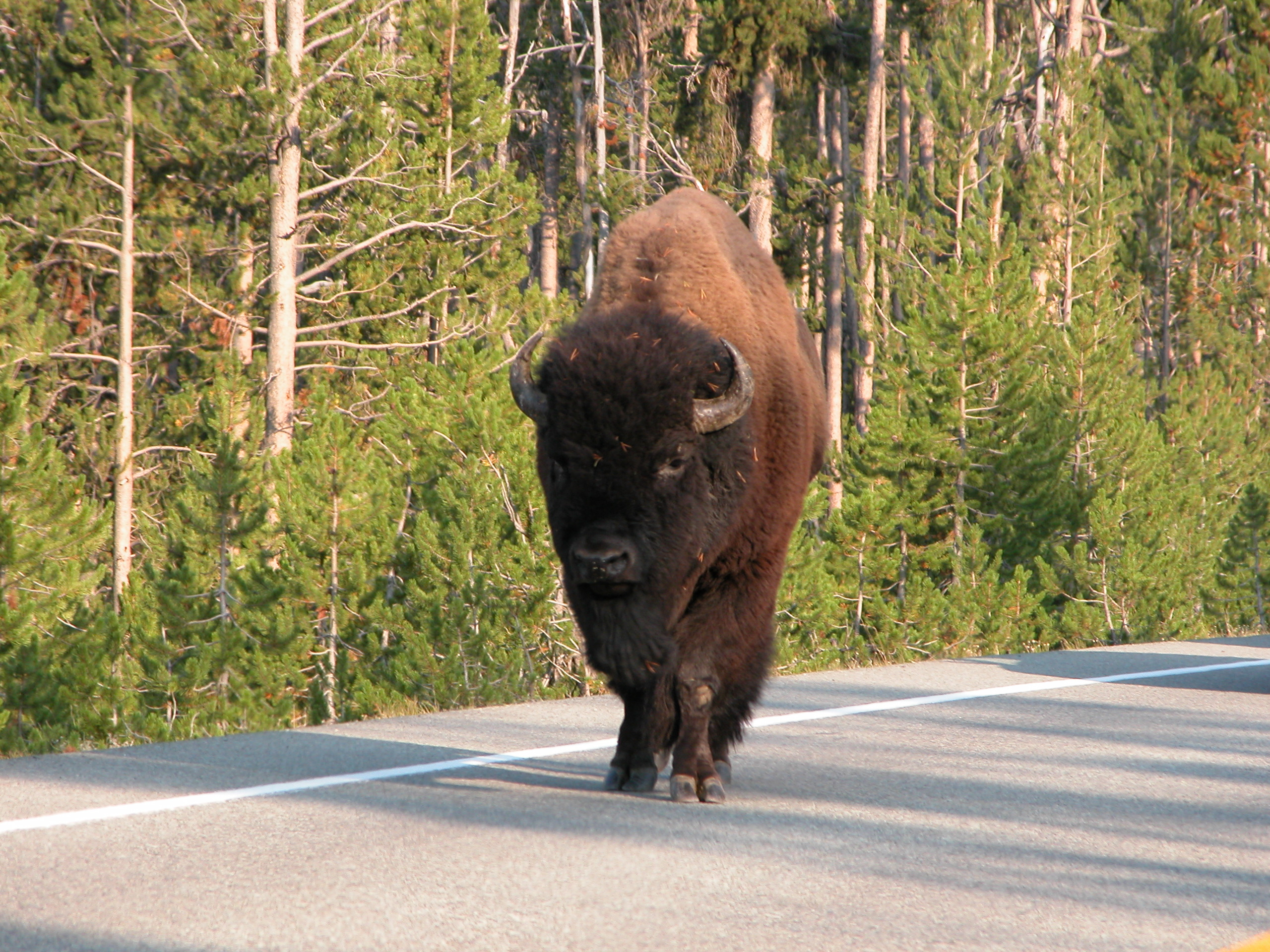 American bison (Bison bison) in the road at Yellowstone National Park.